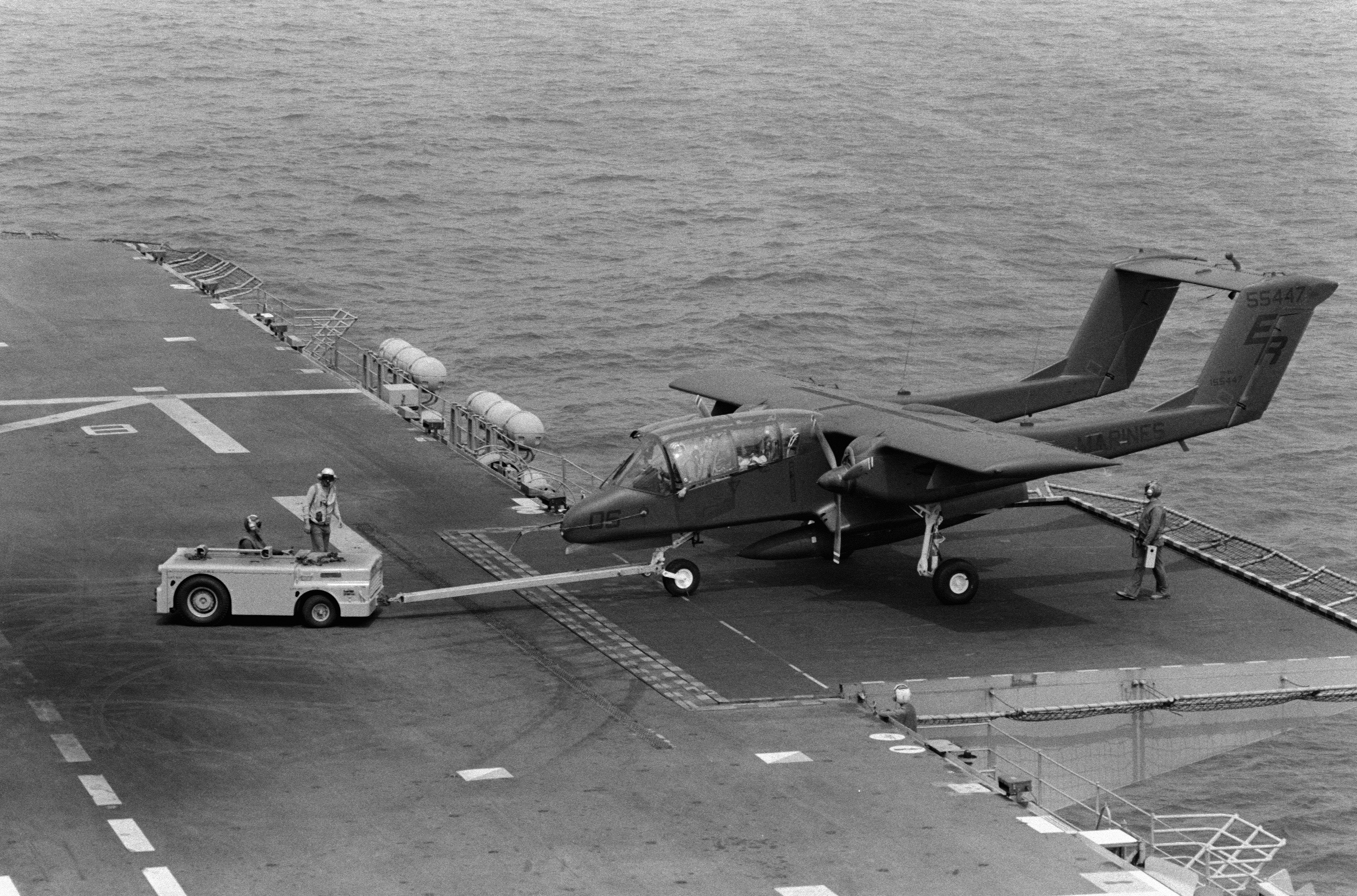 A flight deck crewman uses an MD-3A tow tractor to position a North American Rockwell OV-10A Bronco (BuNo 155447) of U.S. Marine Corps observation squadron VMO-1 on the port elevator of the U.S. amphibious assault ship USS Nassau (LHA-4) in 1983. After its retirement this aircraft was leased by the U.S. Department of State to the Colombian national police.